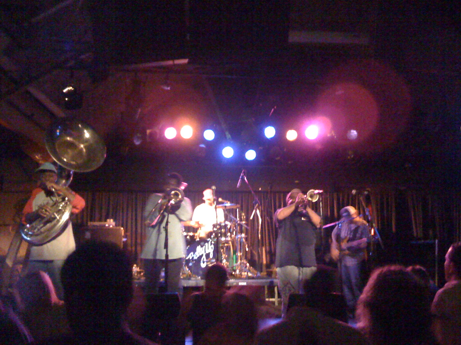 Photo of the Dirty Dozen Brass Band at their concert in Solana Beach, CA. They were playing at the Belly Up Tavern on August 31, 2008. I was in the crowd and took the photo from my iPhone.